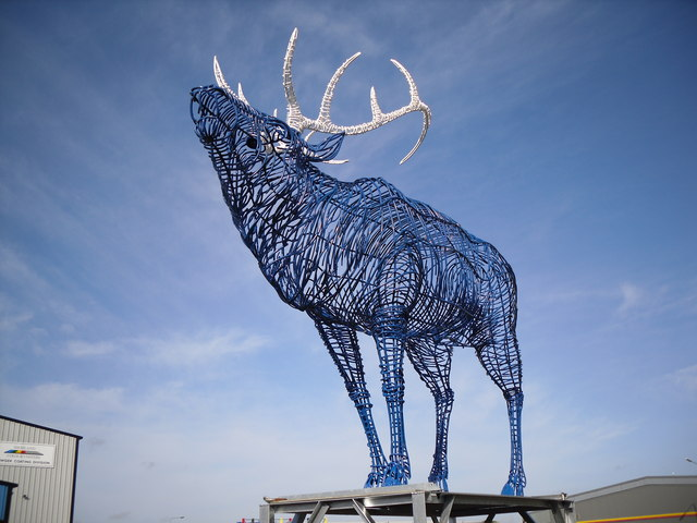 Stag This wire constructed stag can be found at the entrance to an Industrial Estate on Blairlinn Road, Cumbernauld.